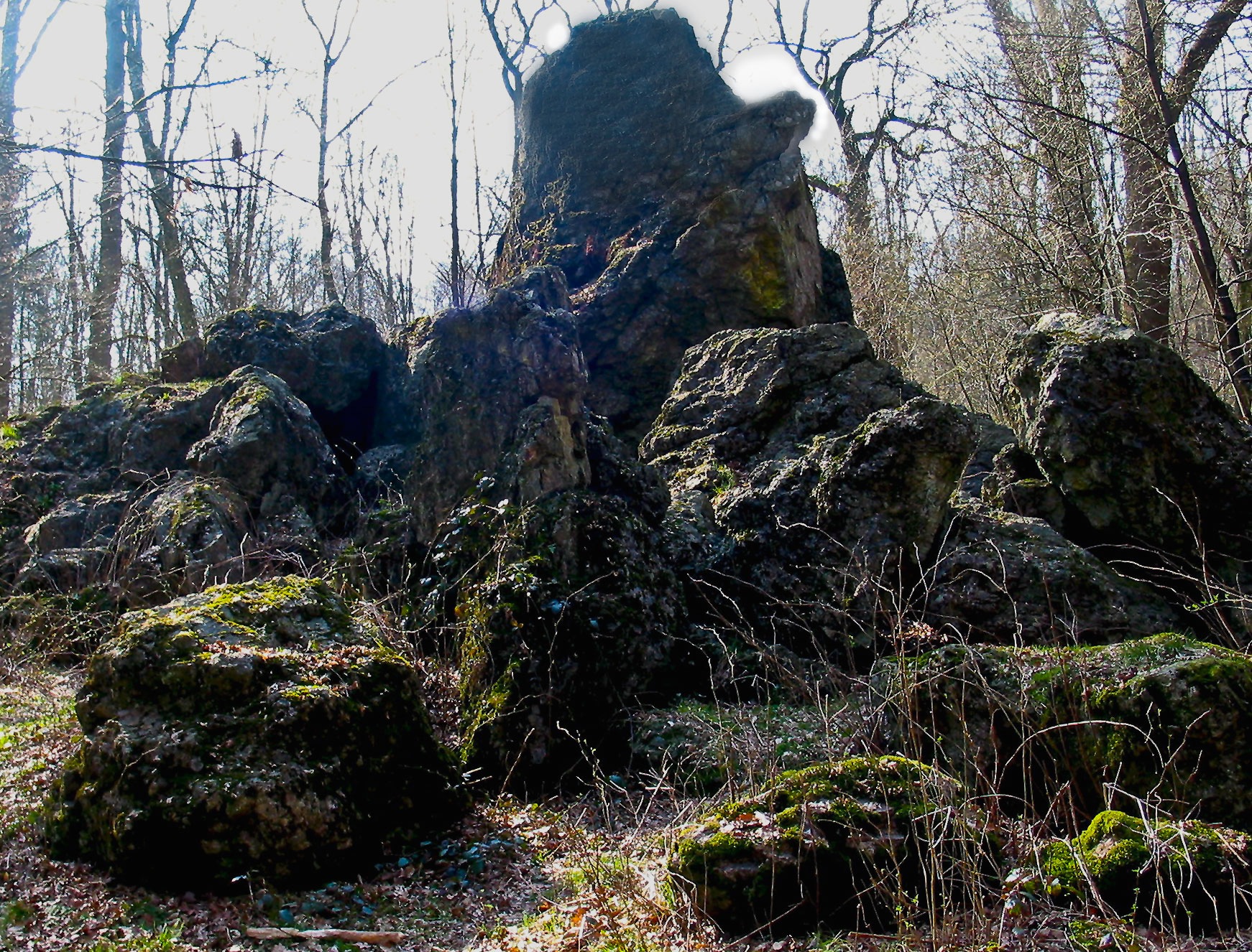 Thick stone below castle homburg at municipality Nümbrecht.